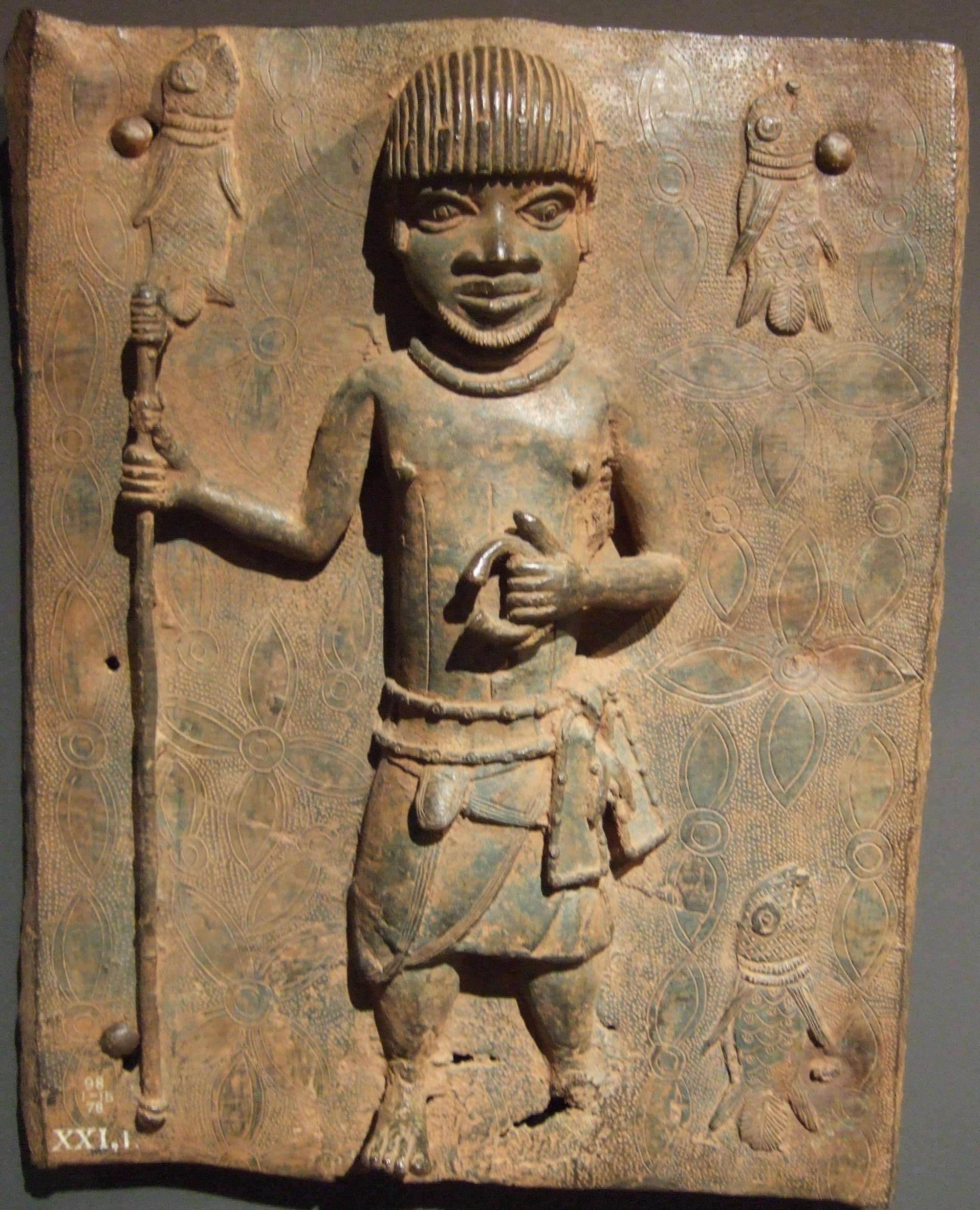 Brass plaque from Benin depicting court official who is holding two manillas.